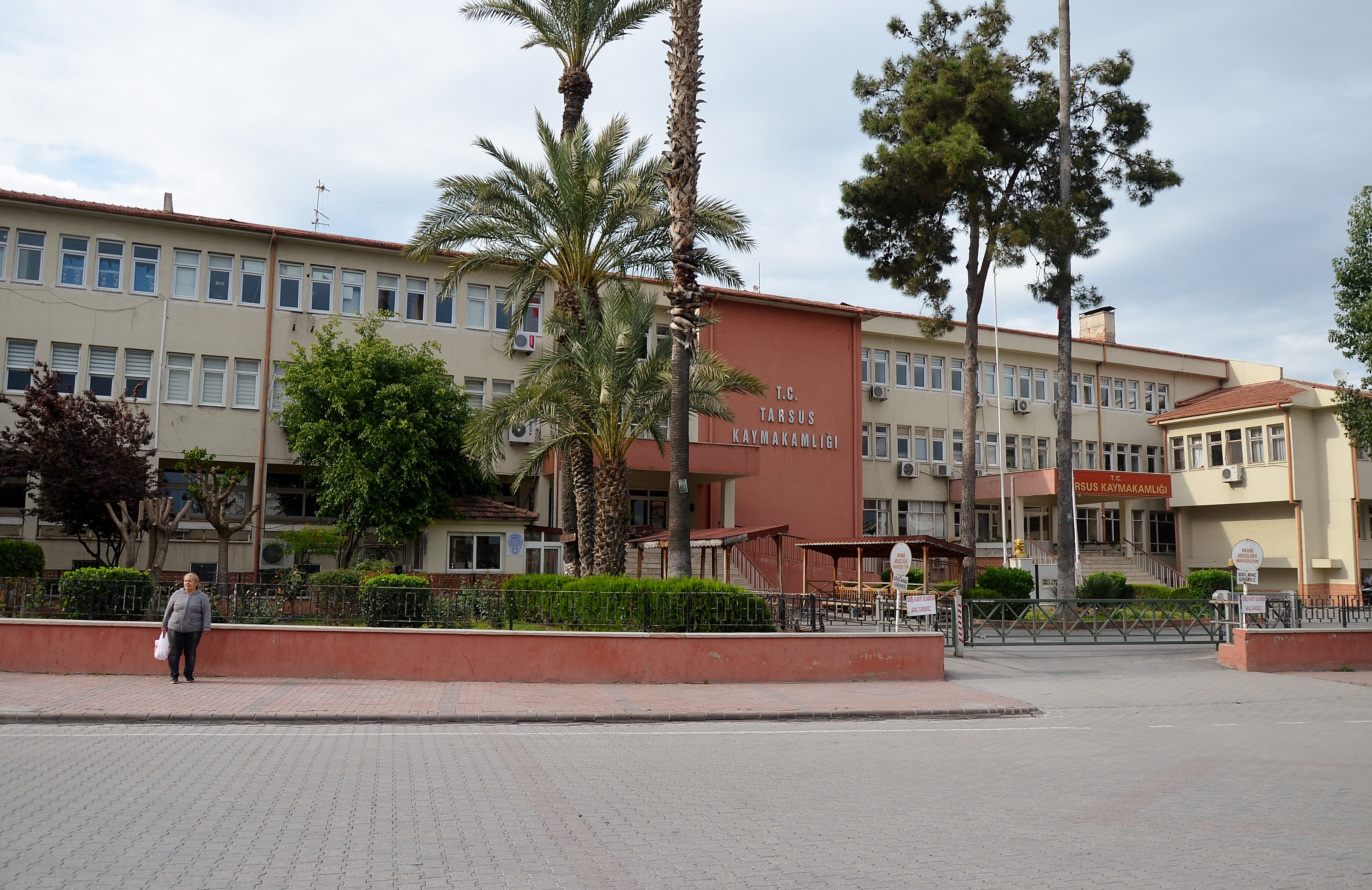 Town hall of Tarsus, Mersin